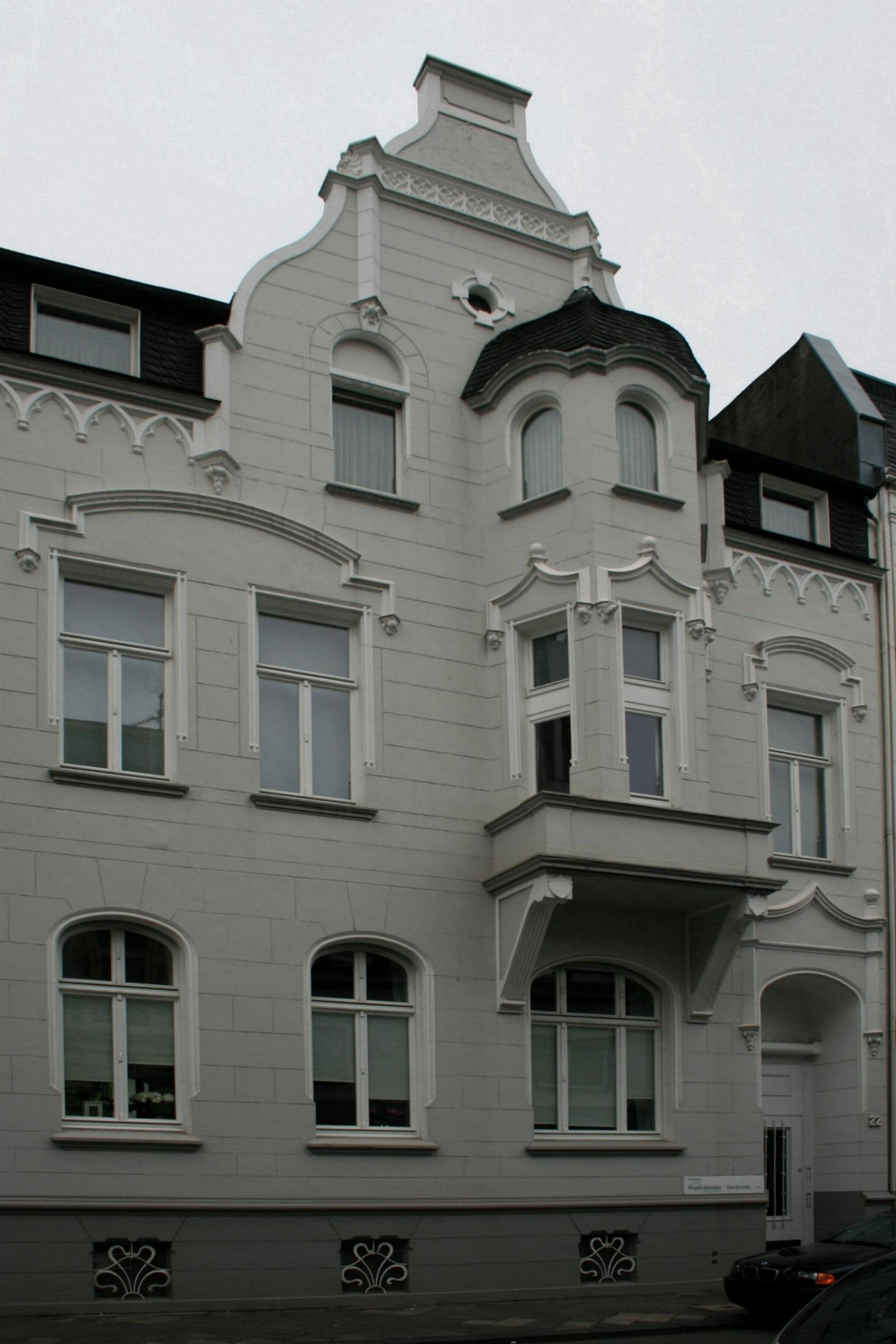 Cultural heritage monument No. S 013 in Mönchengladbach